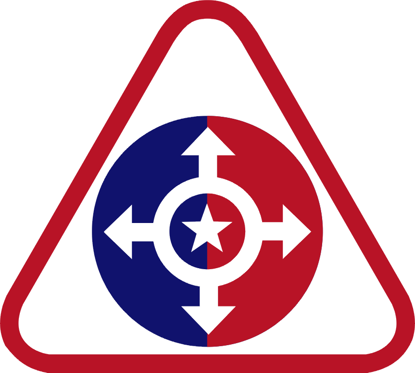 U.S. Army Individual Ready Reserve Shoulder Sleeve Insignia